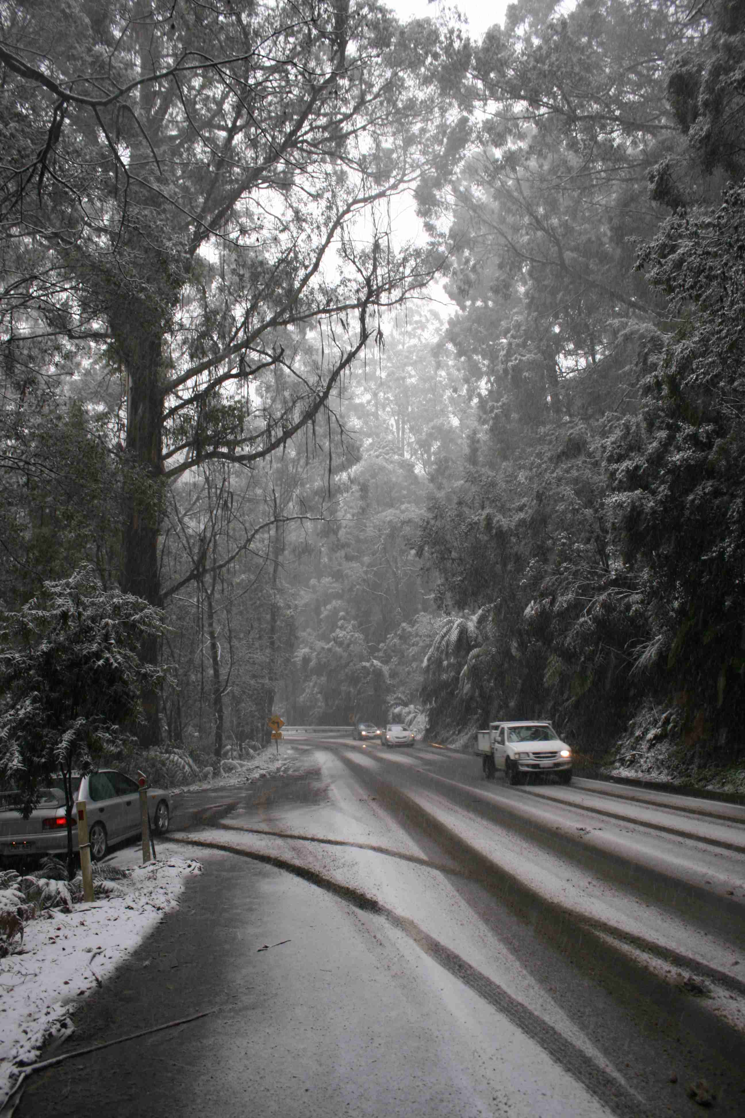 Snow in Sassafrass, Victoria, Australia, August 10, 2008. At approximately 500 m elevation.